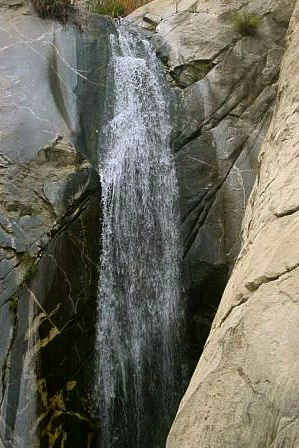 Tahquitz Canyon